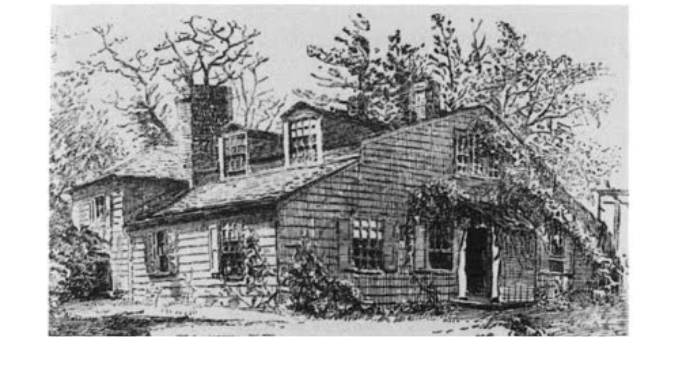 Original caption: "House of Colonel James Givins (rear), at the head of Givins Street off Queen Street West (1802; demolished 1891)."